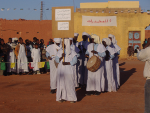 رقصة شعبية